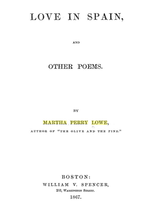 Love in Spain, and Other Poems (1867), by Martha Perry Lowe